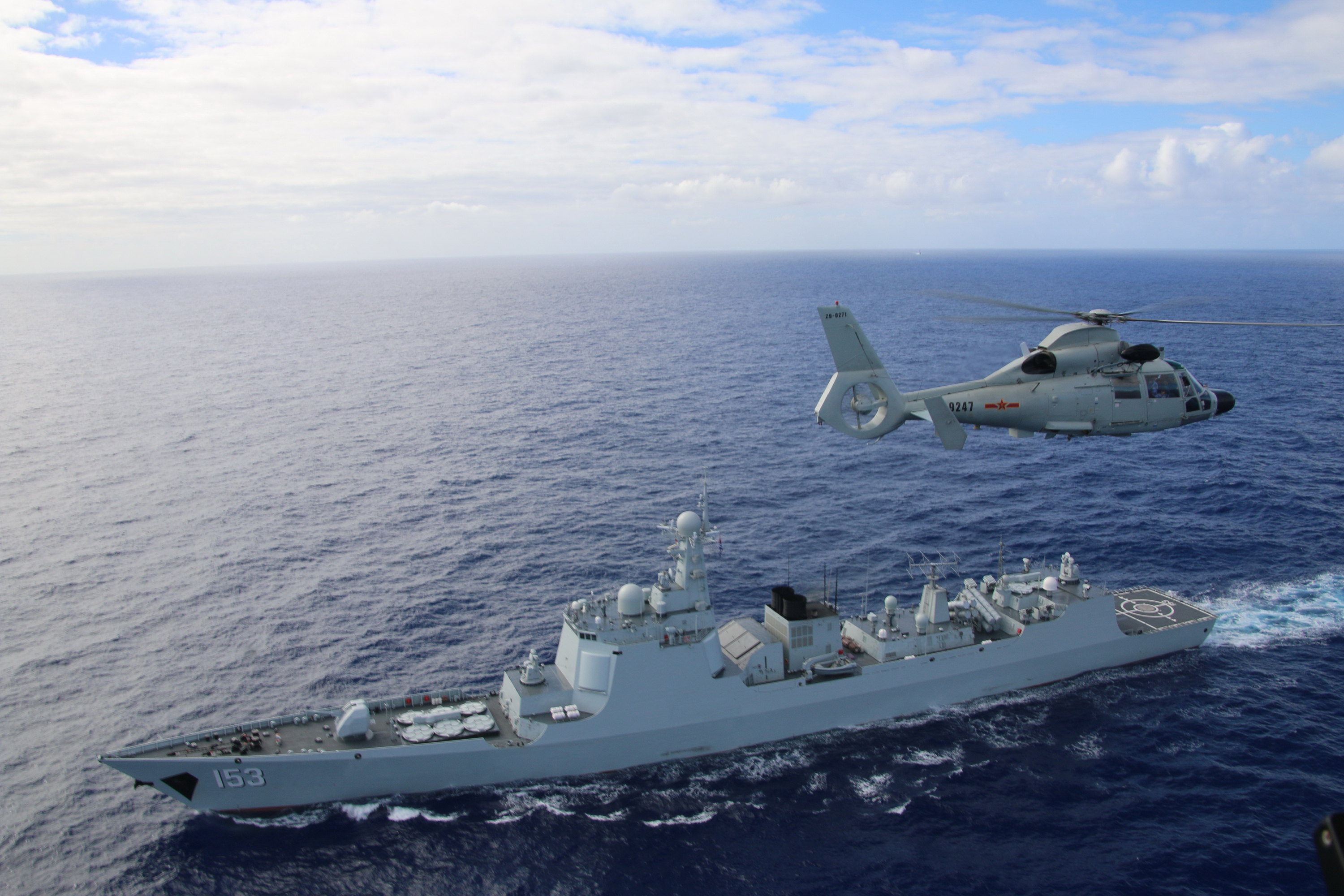 160718-N-CA112-002 PACIFIC OCEAN A helicopter attached to Chinese Navy ship multirole frigate Hengshui participates in a maritime interdiction event with the Chinese Navy guided-missile destroyer Xi’an during Rim of the Pacific. Twenty-six nations, more than 40 ships and submarines, more than 200 aircraft and 25,000 personnel are participating in RIMPAC from June 30 to Aug. 4, in and around the Hawaiian Islands and Southern California. The world's largest international maritime exercise, RIMPAC provides a unique training opportunity that helps participants foster and sustain the cooperative relationships that are critical to ensuring the safety of sea lanes and security on the world's oceans. RIMPAC 2016 is the 25th exercise in the series that began in 1971. Unit: Commander, U.S. 3rd Fleet DVIDS Tags: interdiction; chinese; china; rimpac